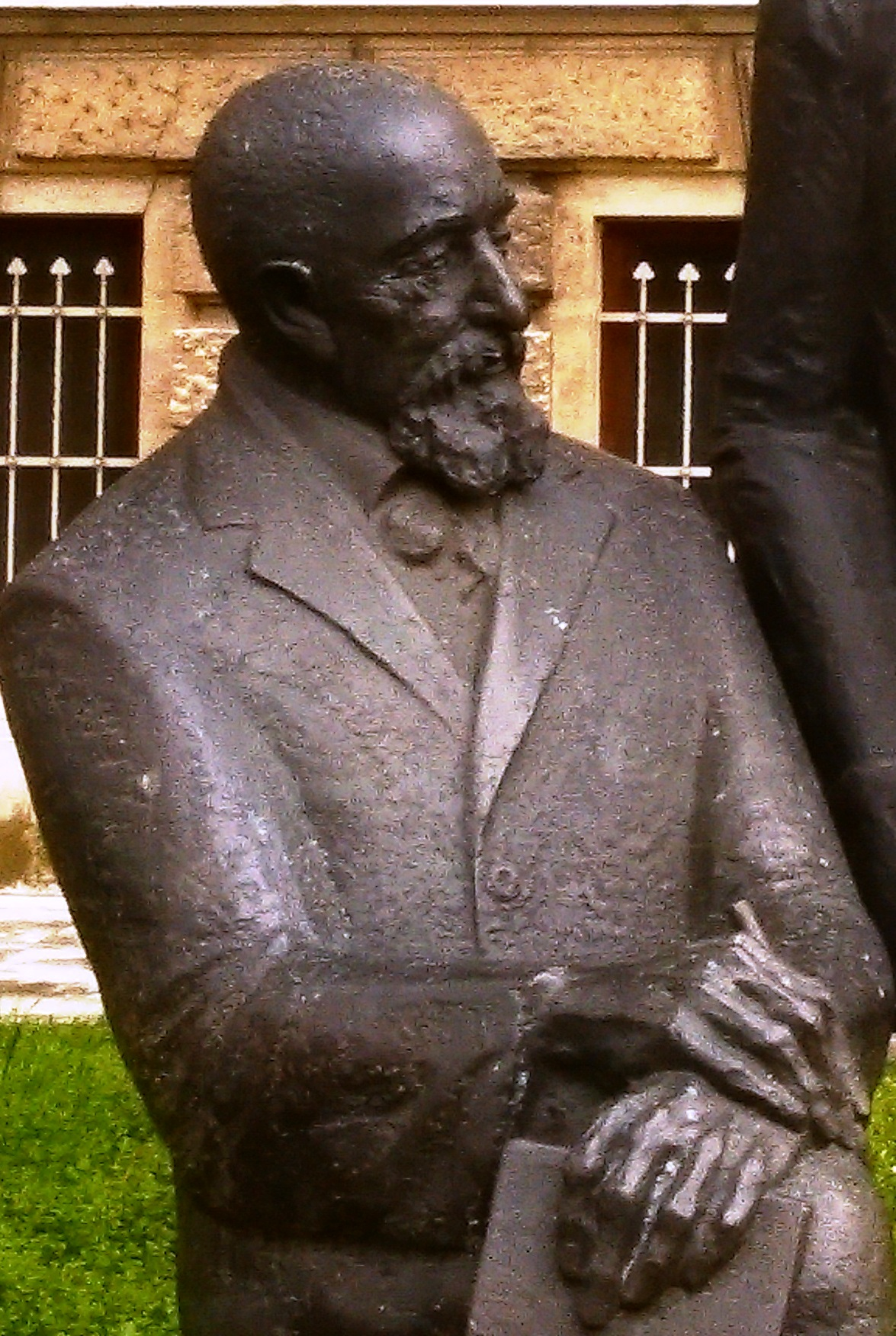 A statue of the czech-bulgarian archaelogist Karel Škorpil at Varna archaelogical museum, Bulgaria